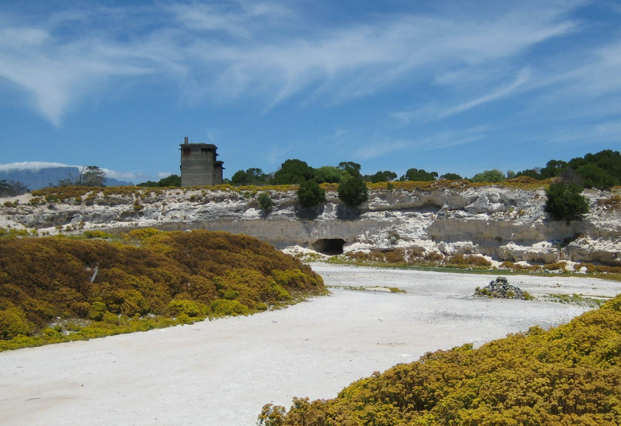 Shows quarry where Nelson Mandela and other prisoners worked. The cave was used for communication between the prisoners. The pile of stones was also used for communication. Table Mountain in background.